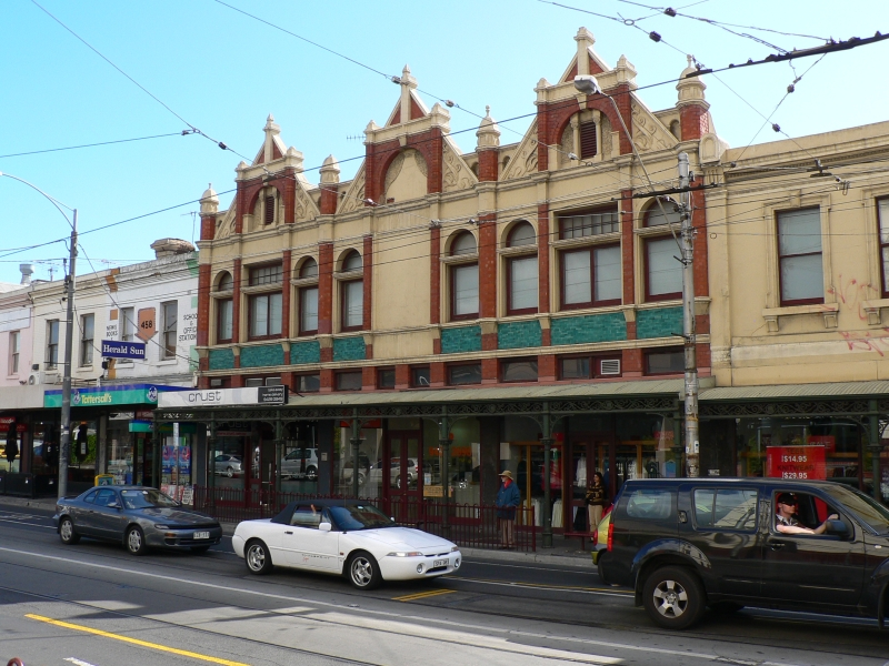 Shops on Church Street. Richmond, Victoria.